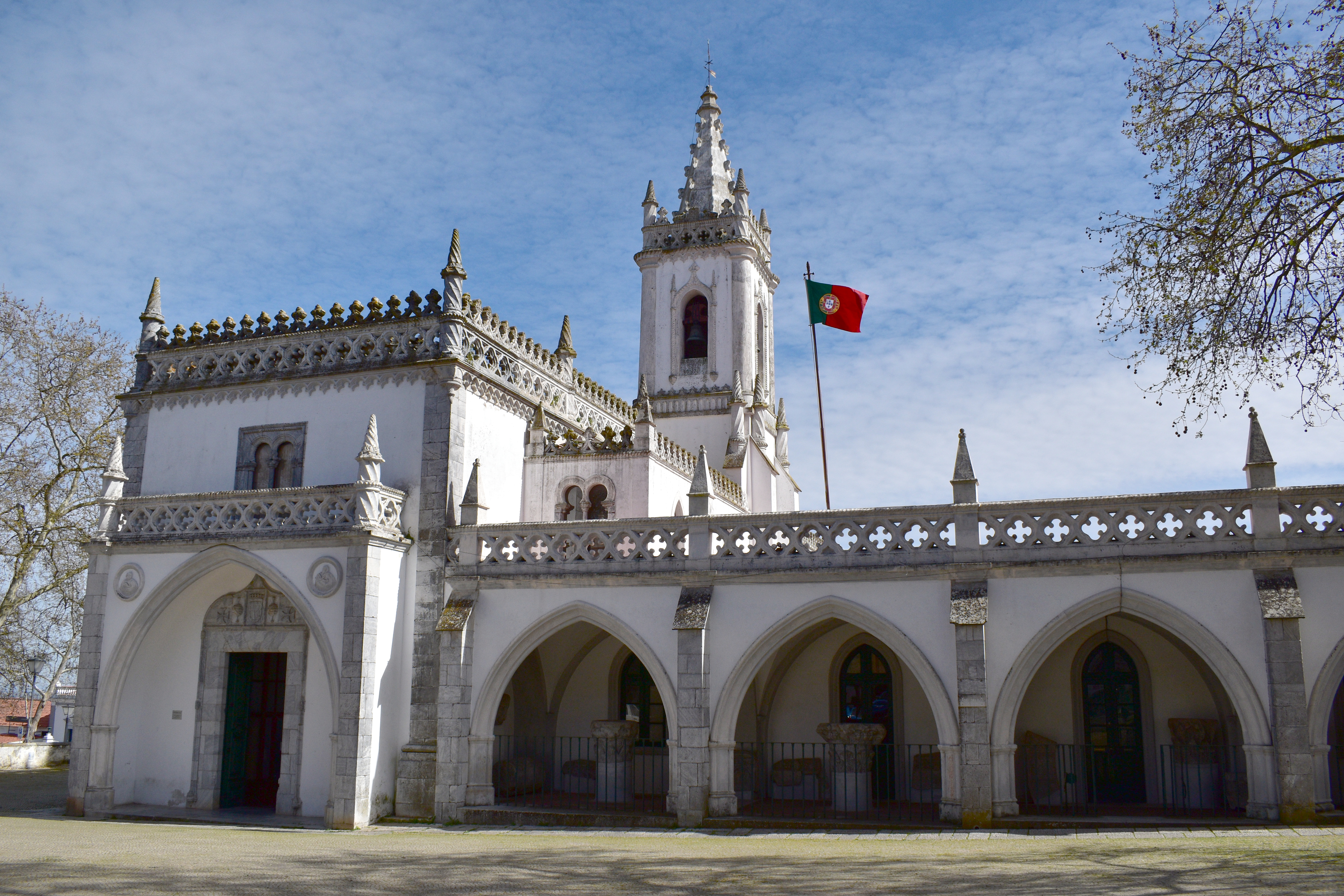 Rainha Dona Leonor museum in Beja, Beja District, Portugal.